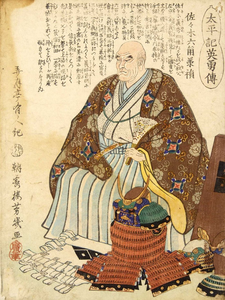 An ukiyo-e of Rokkaku Yoshikata.